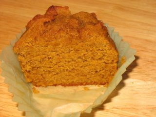 Pumpkin bread